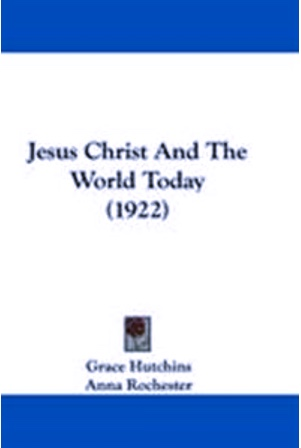 Jesus Christ and the World Today, 1922, book cover. The book was written by Grace Hutchins and Anna Rochester